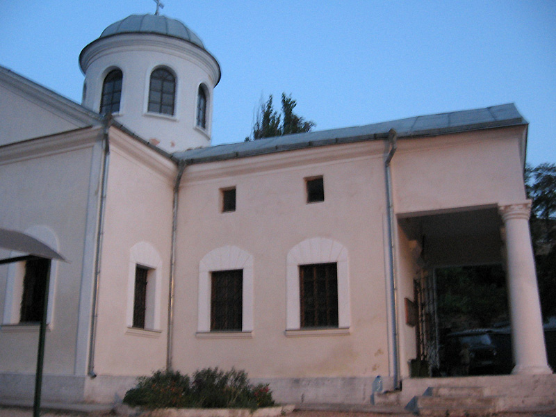 12 apostles crurch in Balaclava